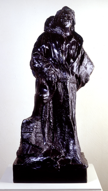 Balzac Dressed in the Robe of a Dominican Monk